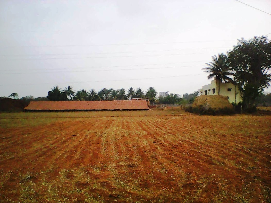 Karnataka state, India.